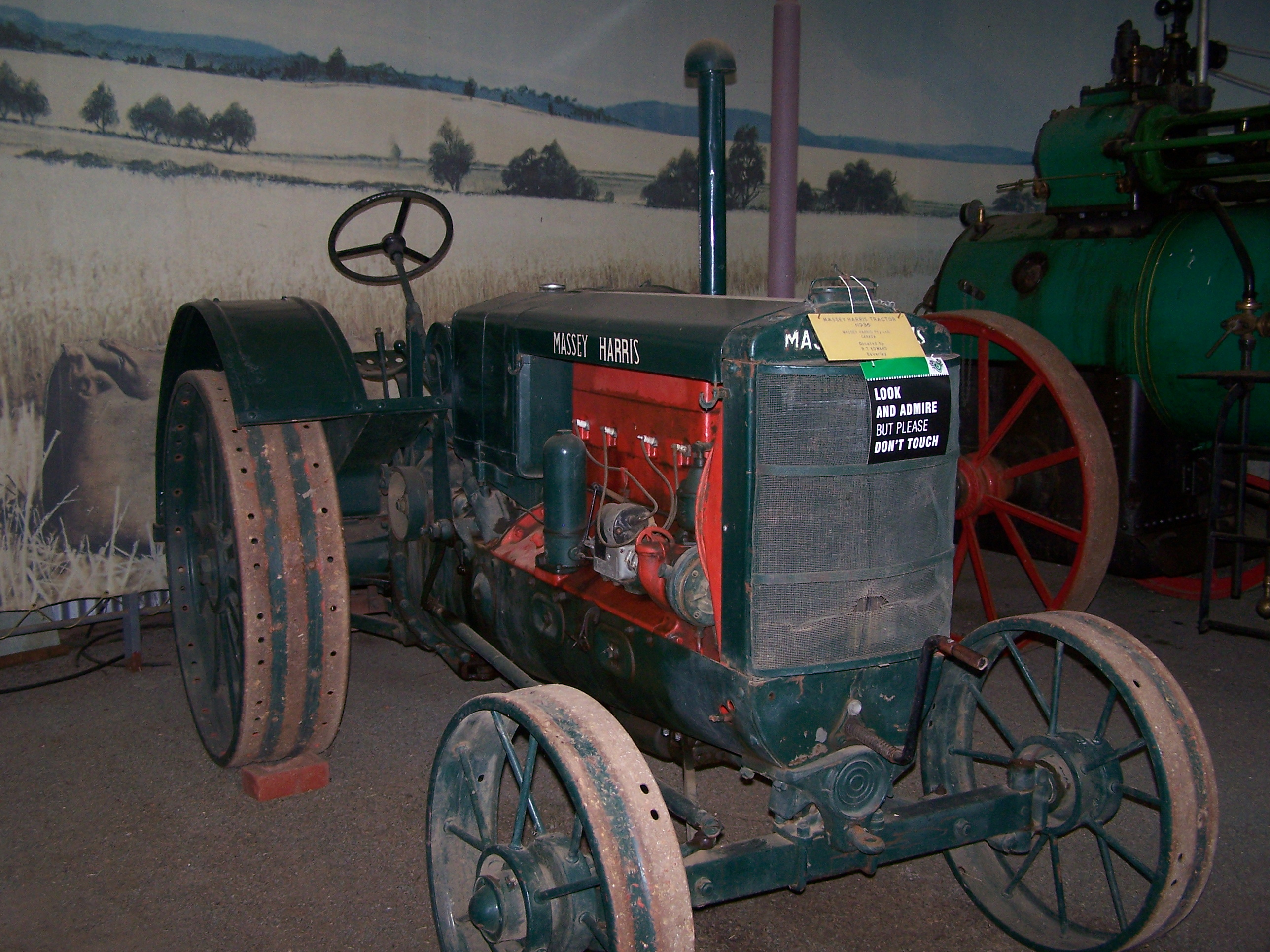 Avondale Agricultural Research Station Beverley WA - Museum displays, Massey Harris tractor c.1920